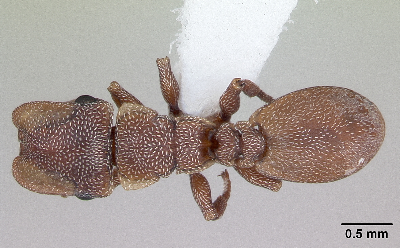 Dorsal view of ant Cephalotes incertus specimen casent0173681.